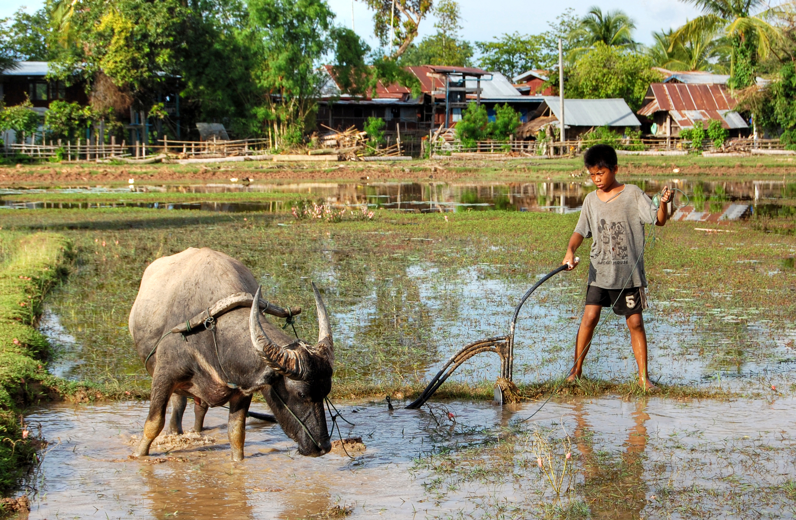 A child ploughing the land with a water buffalo in Don Det, Si Pan Don, Laos (note: this is not in fact an ox).